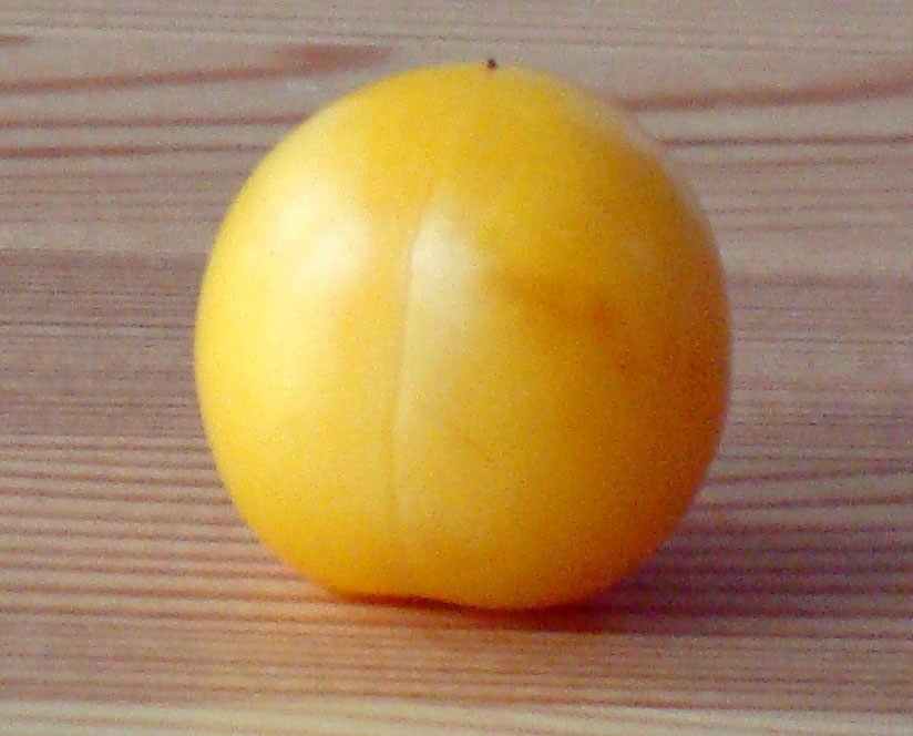 A subspecies of Prunus Domestica, the plum.